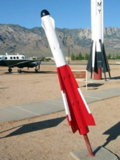 The AIM-4 Falcon air-to-air missile. From the source: They could be carried either internally or externally on a variety of interceptor aircraft. When fired they were guided to the target with either a radar or heat-seeking homing device. They flew at supersonic speeds and carried a conventional warhead.